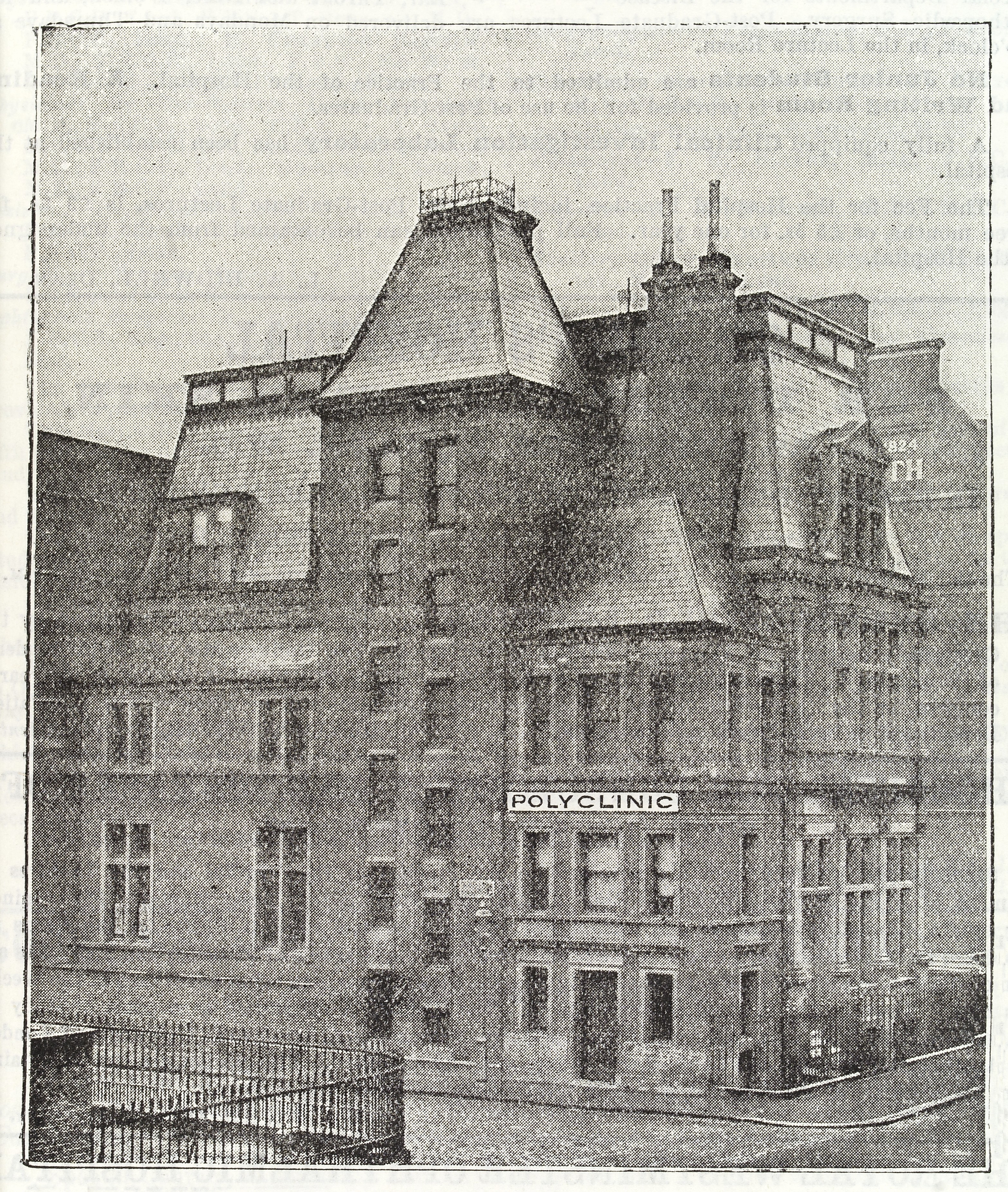 An engraved illustration of 'Medical Graduates' College and polyclinic, 22 Chenies Street, Gower Street, London WC'; features as part of an advertisement for new medical students. General Collections Keywords: Hospital; Hospitals; Institutions